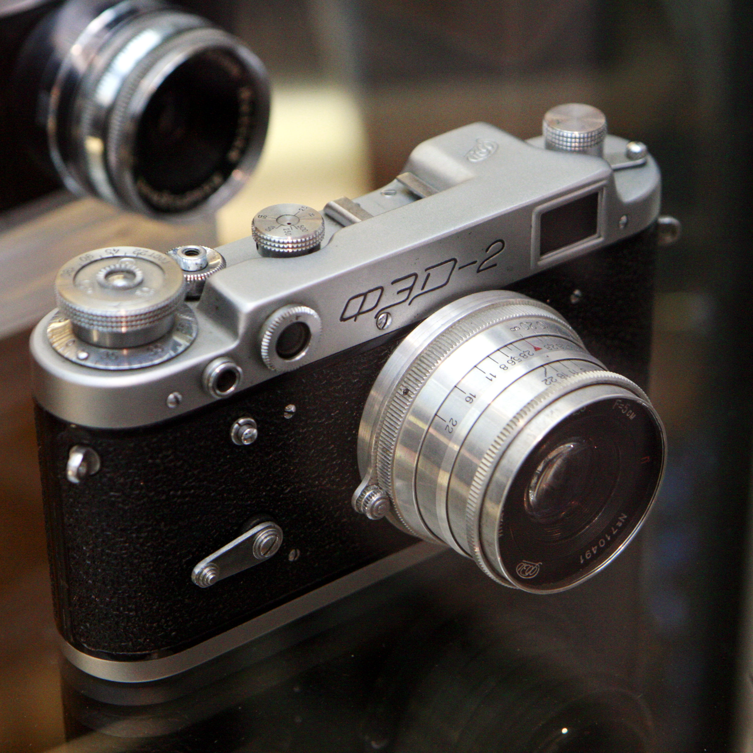 FED 2 camera